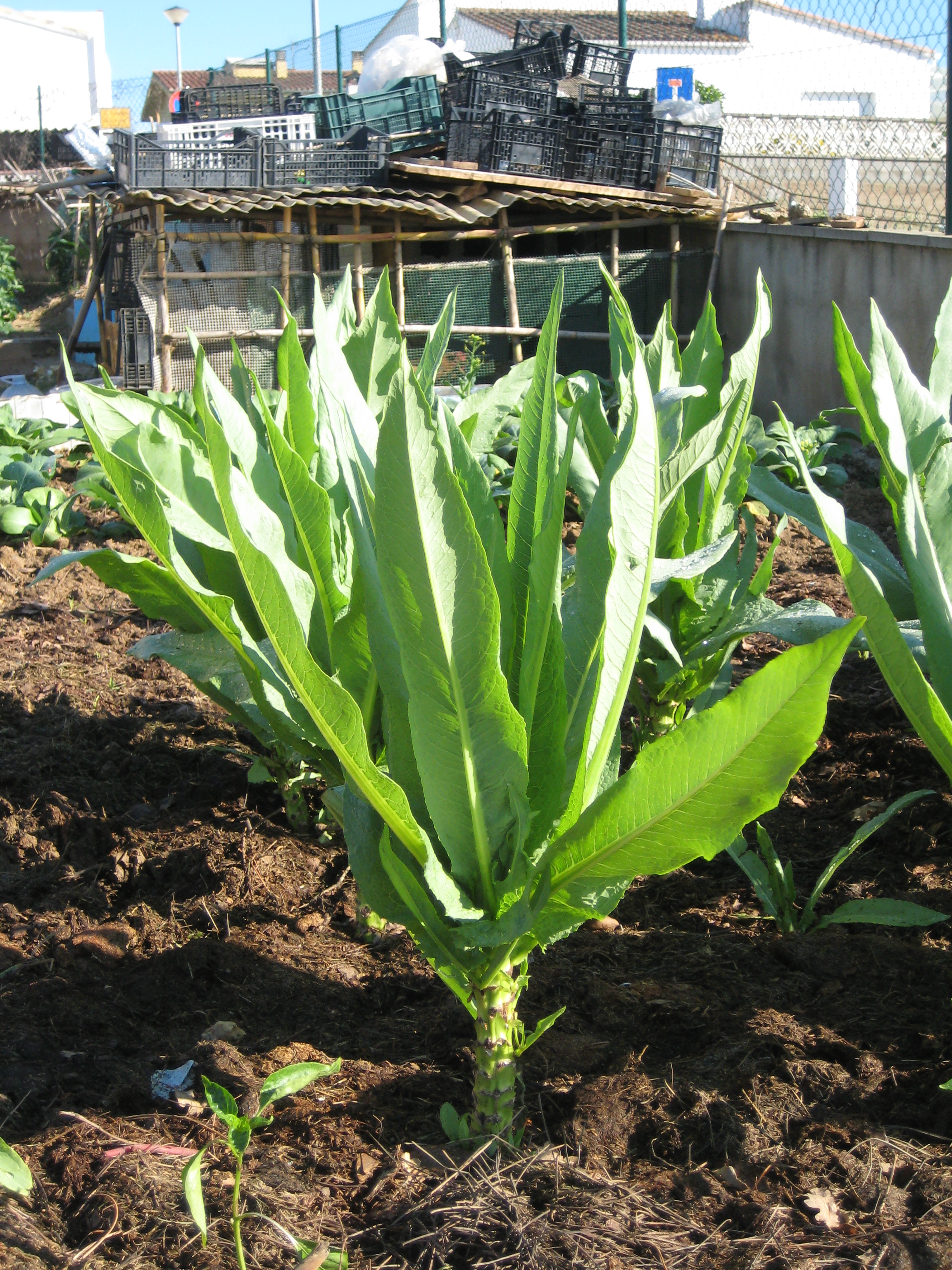 Chinese lettuce or "wosun".